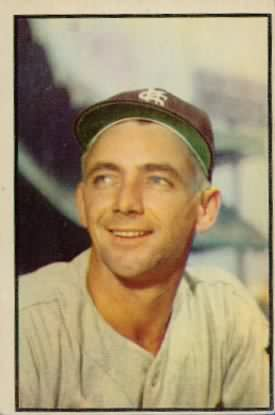 1953 Bowman color baseball card of Marlin Stuart of the St. Louis Browns #120. PD-not-renewed.